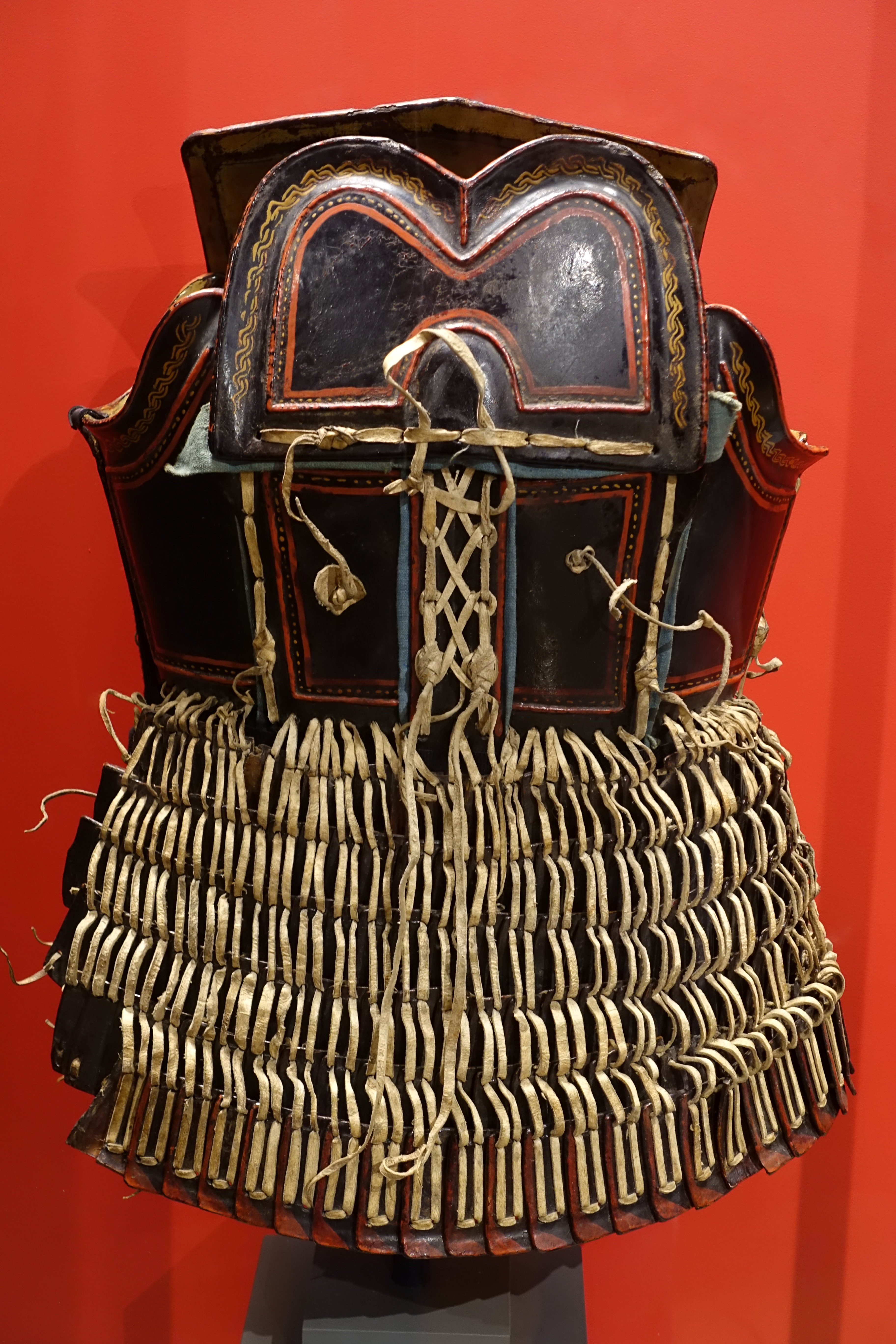 Exhibit from the Peabody Museum, Harvard University, Cambridge, Massachusetts, USA. Photography was permitted without restriction; exhibit is old enough so that it is in the public domain.